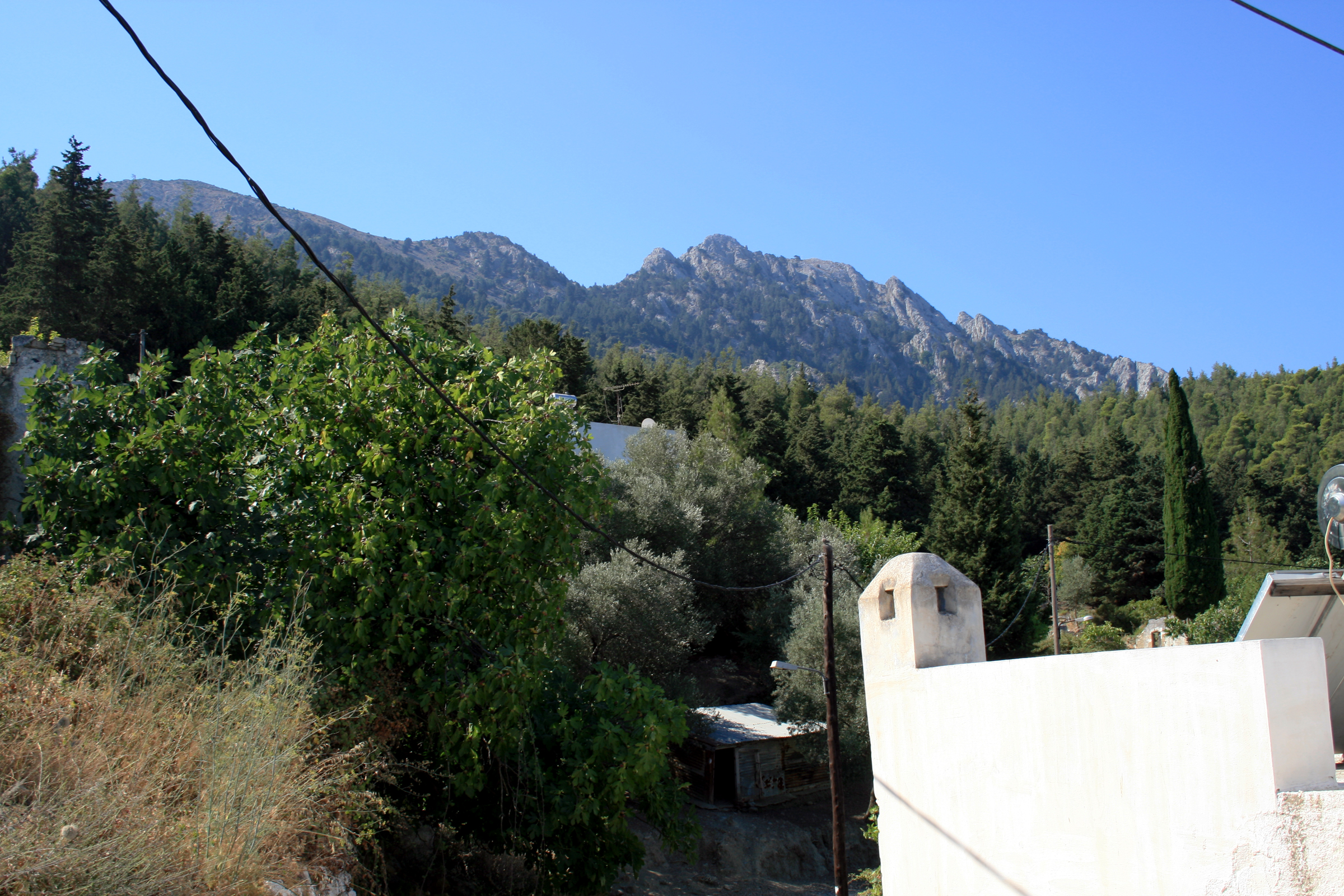 View to hills in surrounding of Zia town on Kos island (Greece)